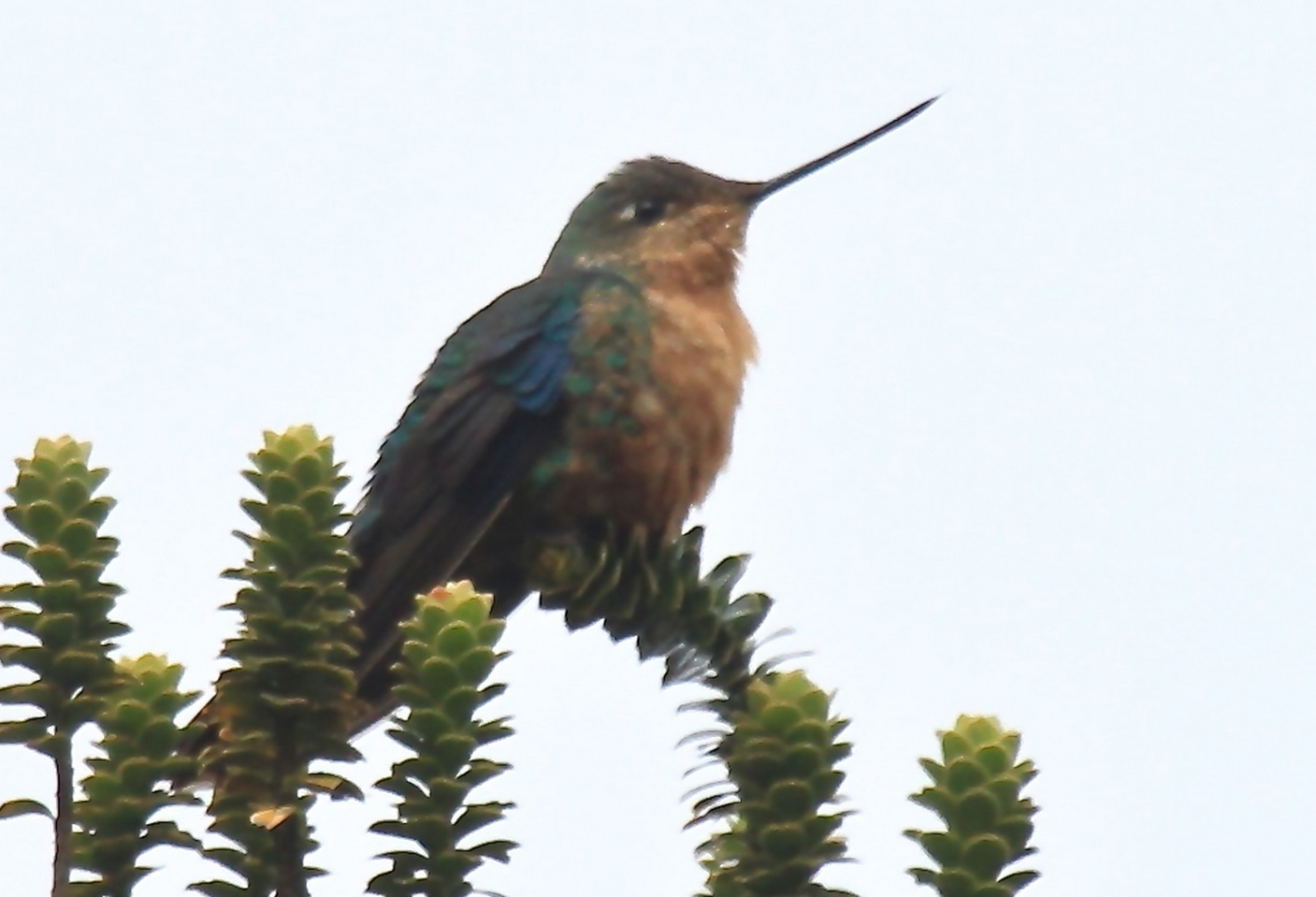 Above Termas de Papallacta